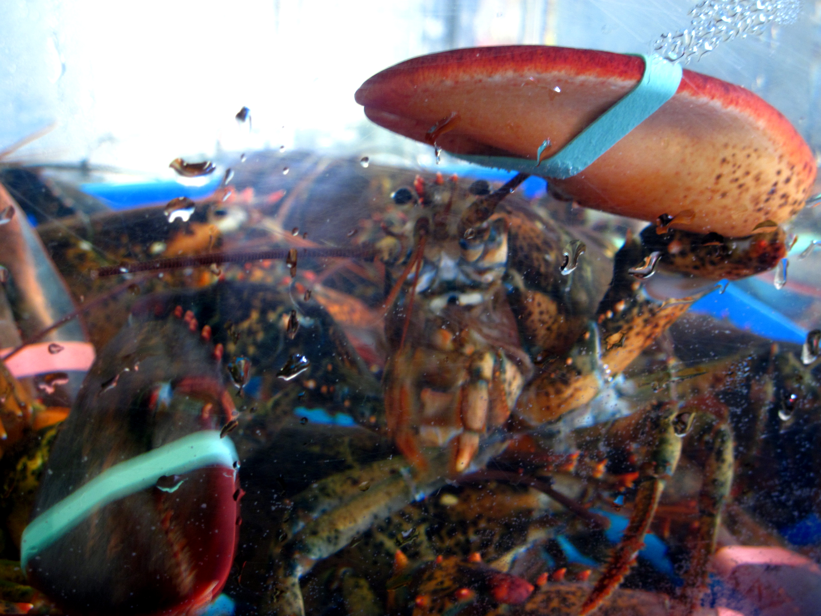 A lobster looking out at a potential customer from an aquarium tank in a fish market.